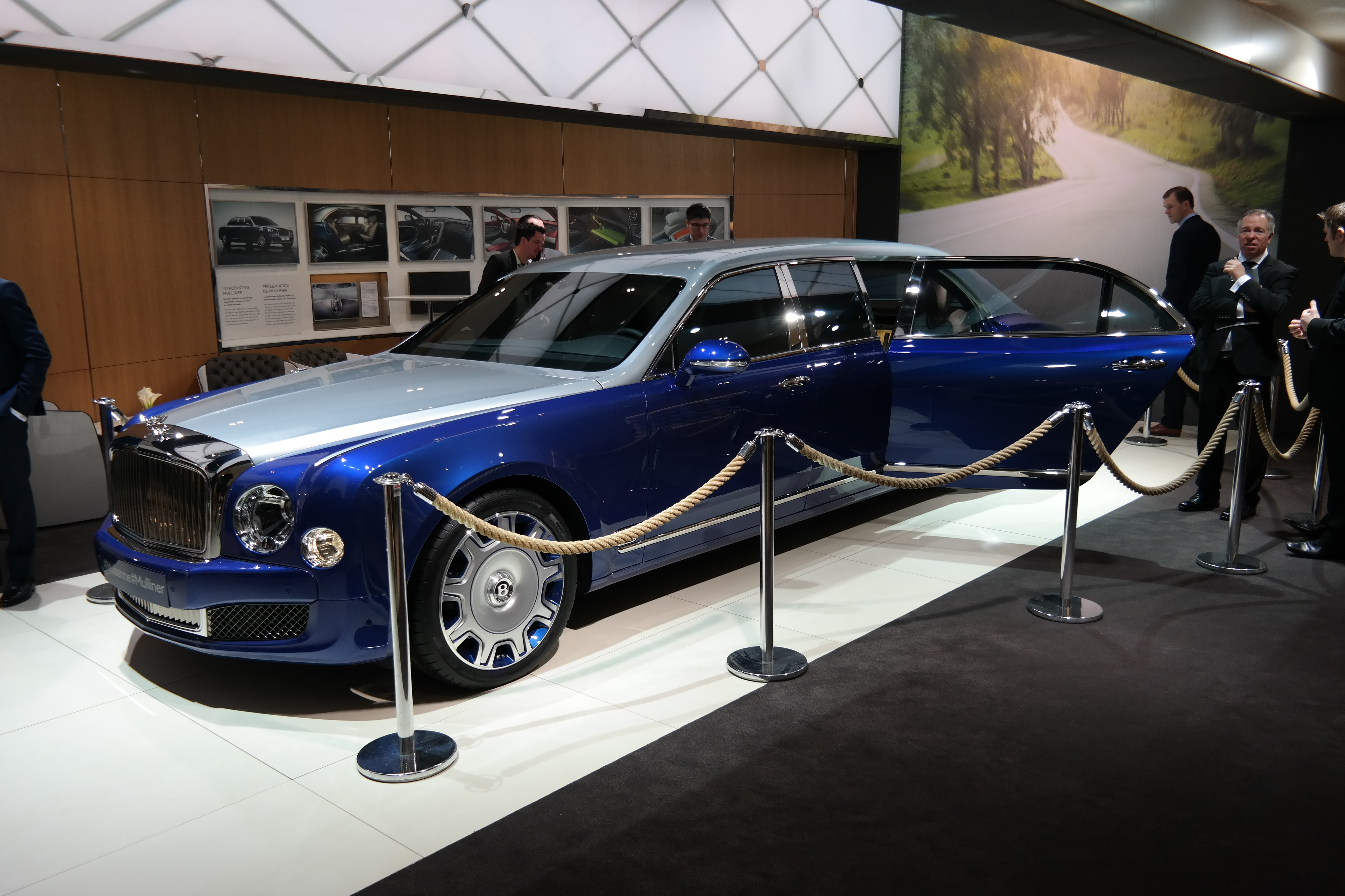 Geneva Motor Show 2016 (photo taken on the first press day)